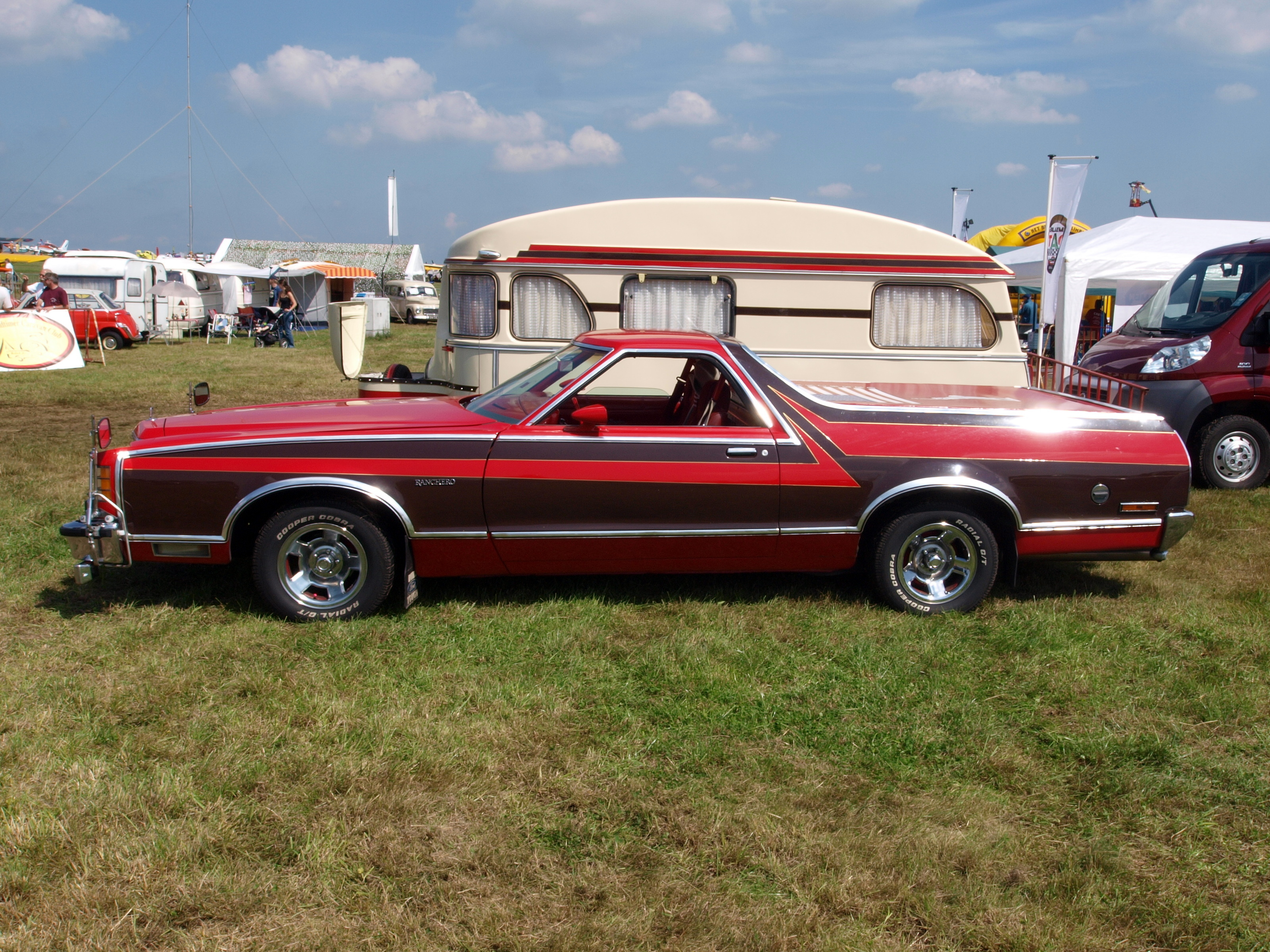 Photographed at The International Oldtimer Fly and Drive In 2010, Schaffen-Diest, Belgium.